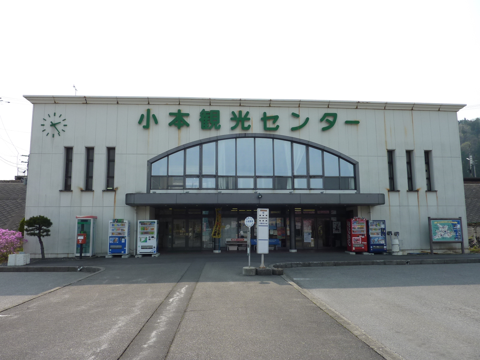 Omoto Station on Sanriku Railway Kita Riasu Line, in Omoto, Iwaizumi Town, Shimohei District, Iwate Prefecture, Japan